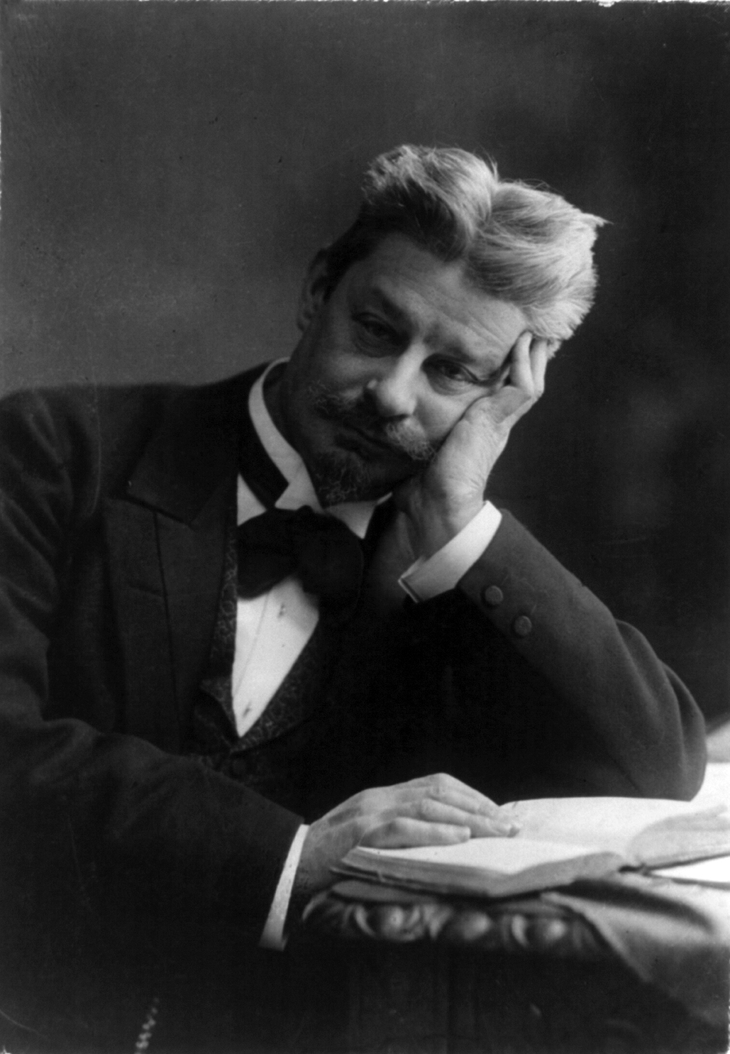 George Brandes, Danish literary critic and scholar